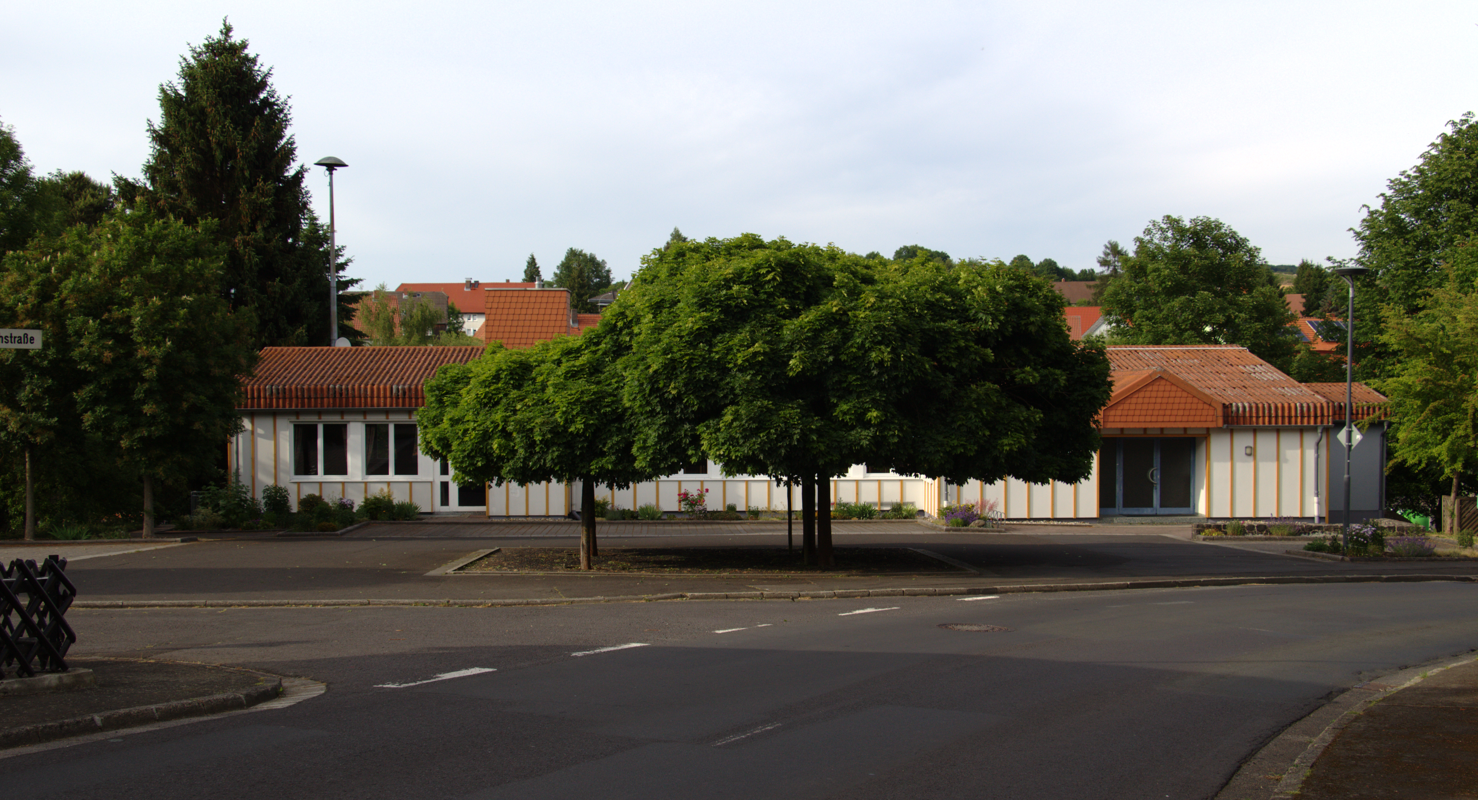 Community Centre (DGH) in Brauerschwend Kirchstrasse 7, Schwalmtal, Hesse, Germany